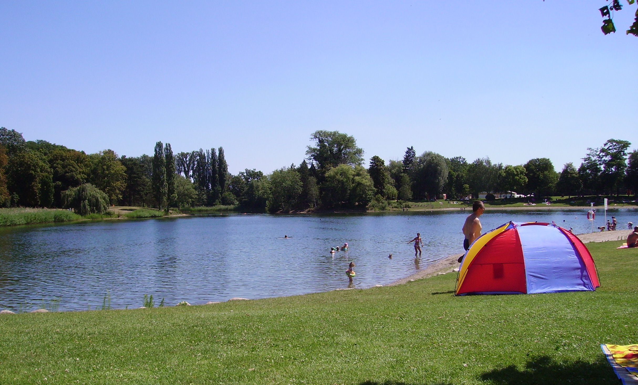 bathing lake in Frankenthal, Germany